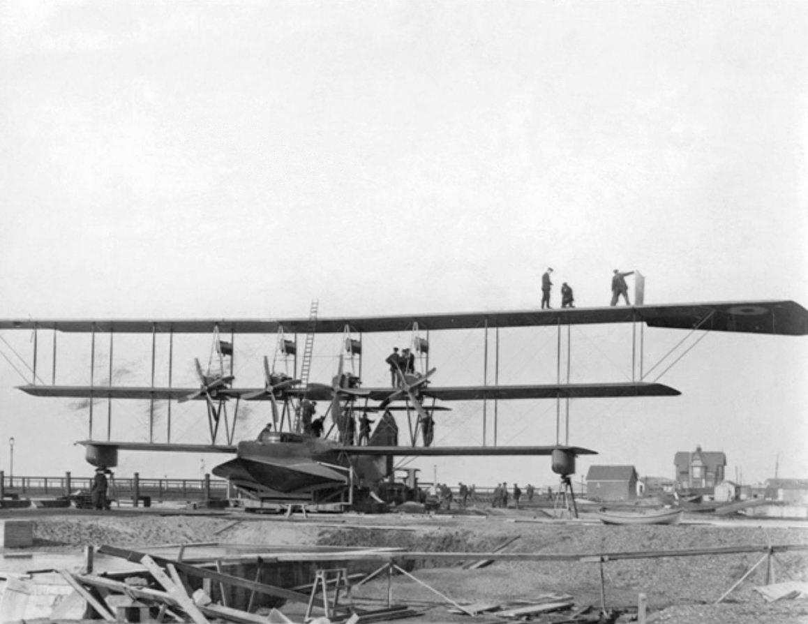 Photograph of the Curtiss T Wanamaker Triplane